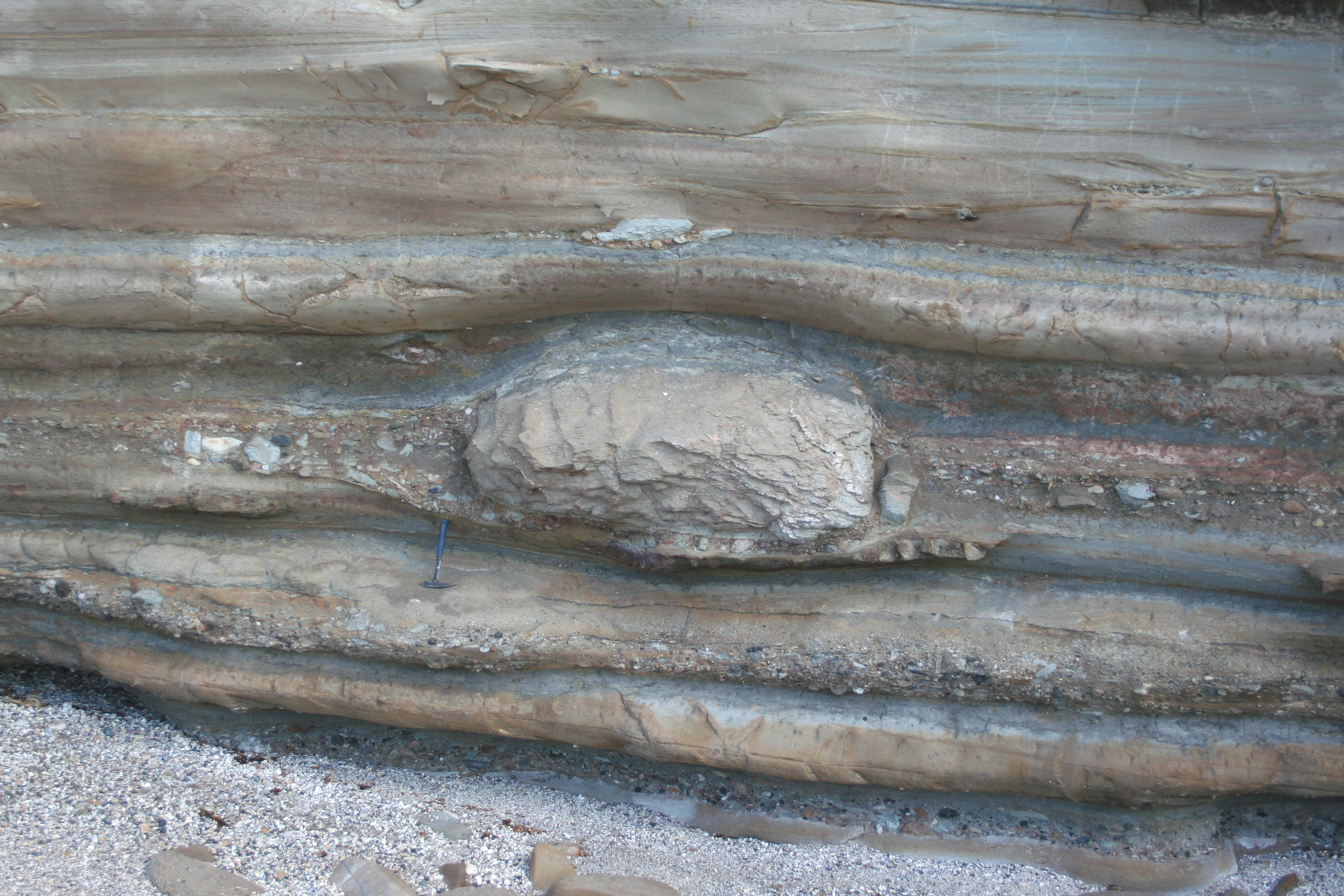 Large glacial dropstone in the Wasp Head Formation (Permian), New South Wales, Australia.